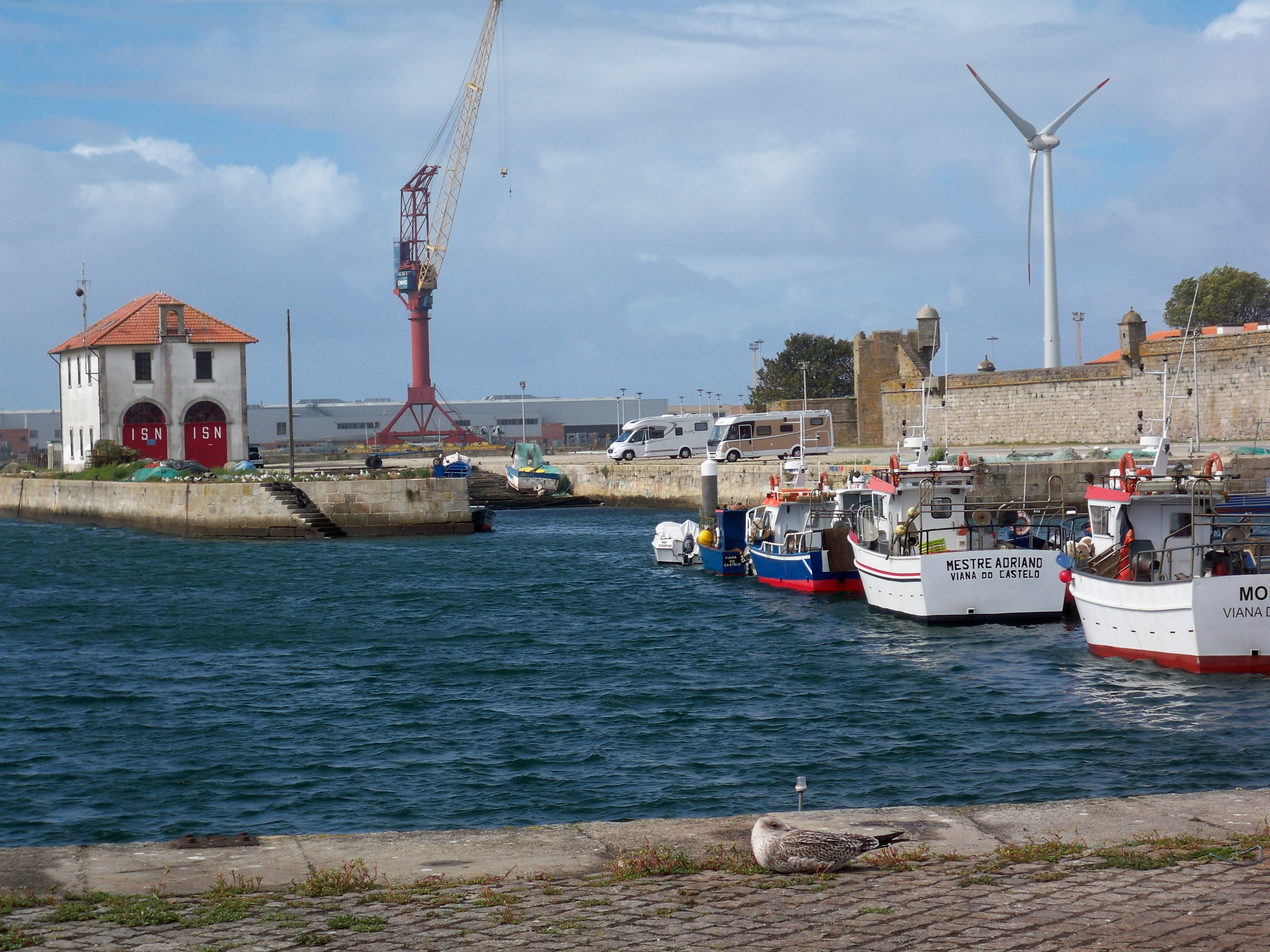 One of the most importants maritime cities of Portugal until the XIX century, Viana do Castelo is nowadays a world of memories.